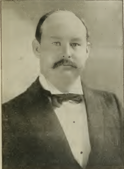 Photo of Edward Michael Jackman, published in the Newfoundland Quarterly Volume 5 (1905).